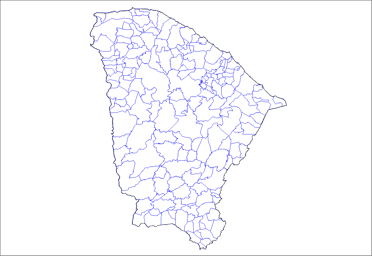 Map of the municipalities of the state of Ceara, Brazil. Created by Rarelibra 20:01, 24 August 2006 (UTC) for public domain use. Created using MapInfo Professional v8.5 and various mapping resources.